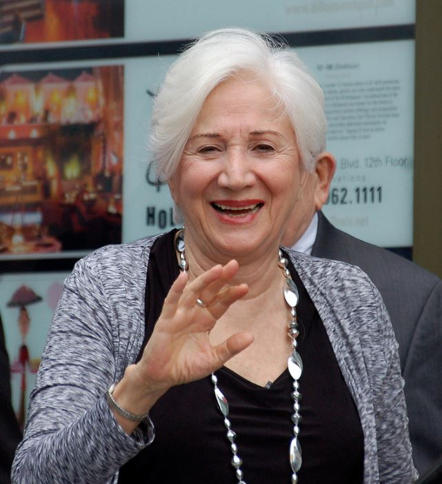 Olympia Dukakis at a ceremony to receive a star on the Hollywood Walk of Fame.